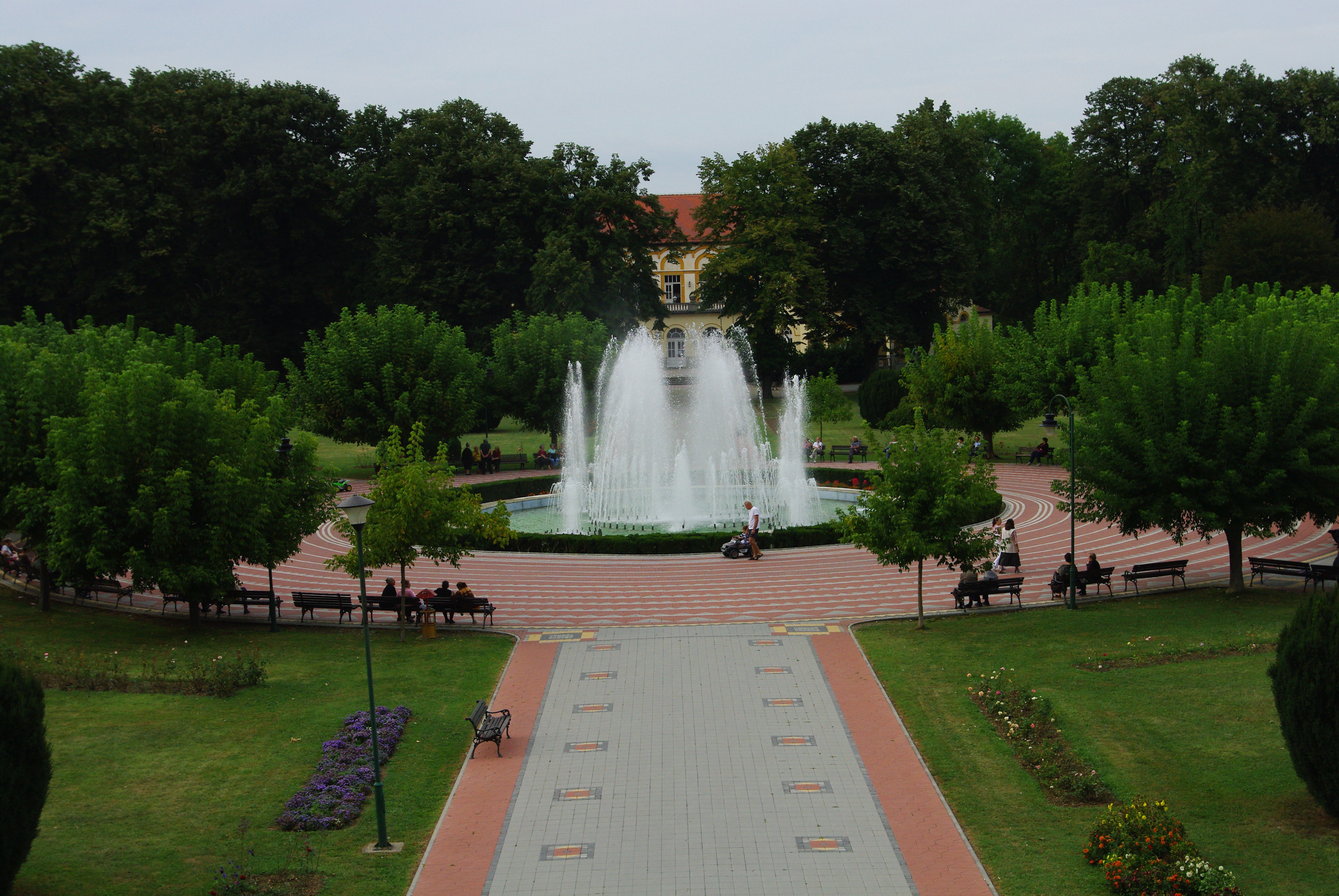 Fountain in Banja Koviljaca, Serbia